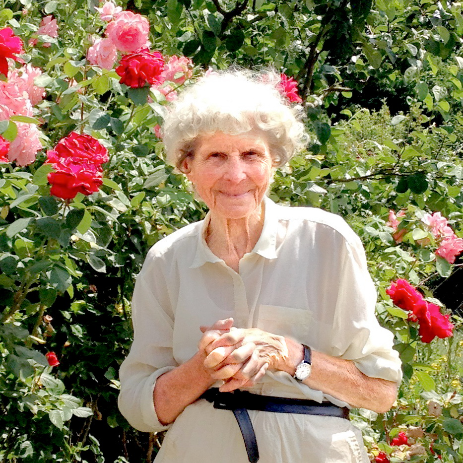 Ingetraut Dahlberg in front of a bush of roses in her Garden